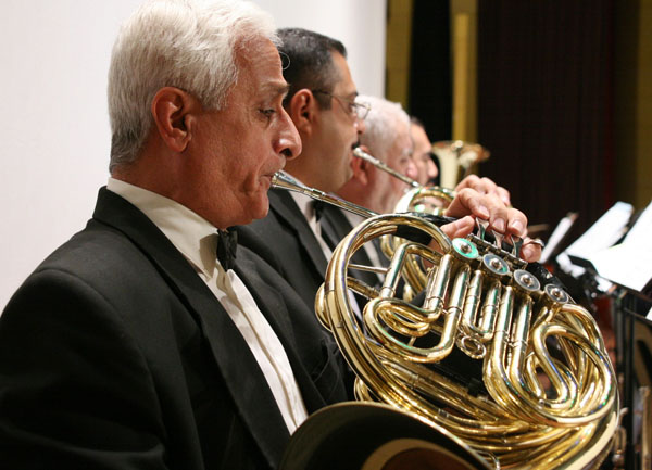 The french horn section of the Iraqi National Orchestra plays as part of a 5-orchestra program at the culmination of a 10-day camp for aspiring Iraqi performers and artists at the National Unity Performing and Visual Arts Academy in Iraq,2007.